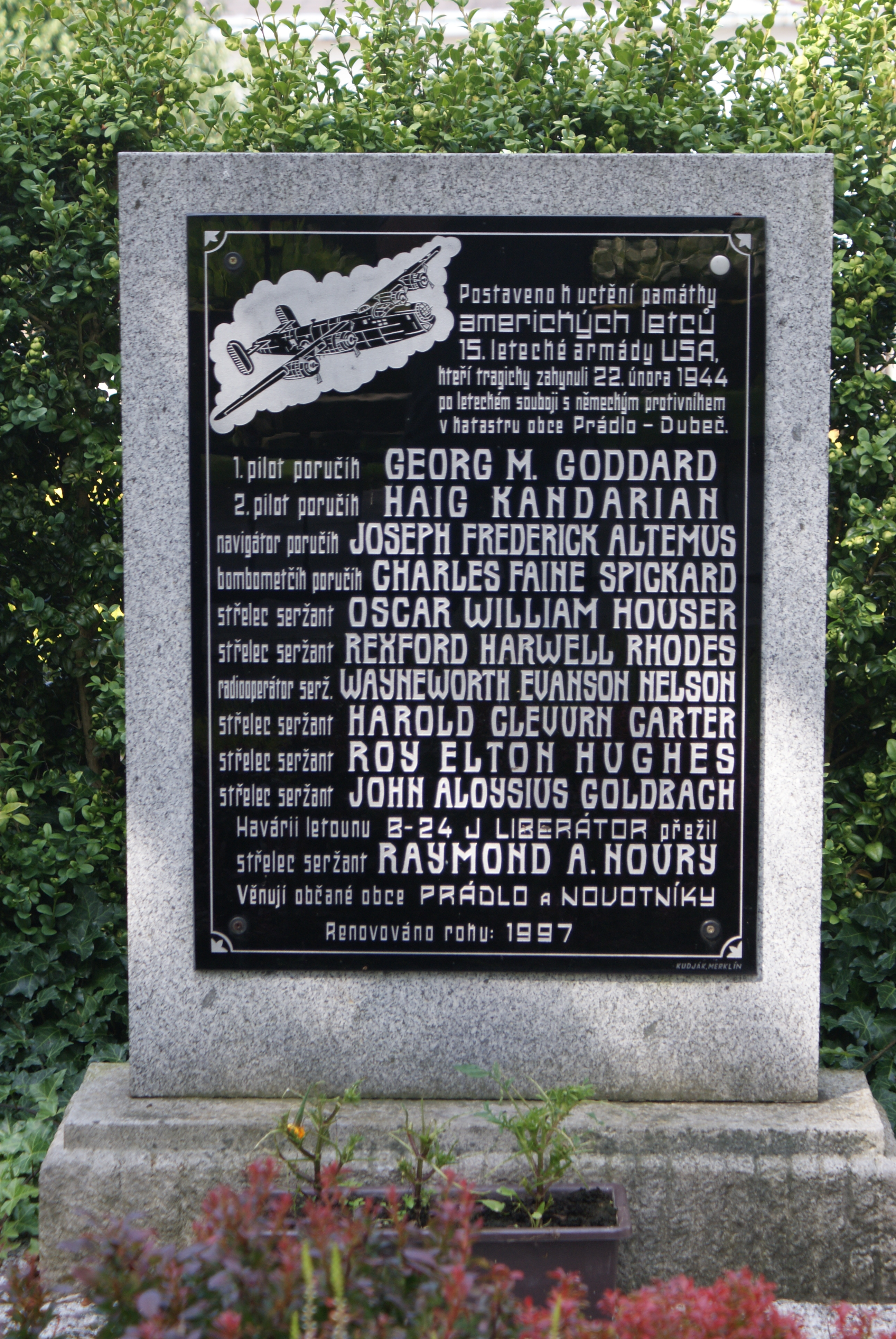 Prádlo, a village in Plzeň-South District, Czech Republic, US bomber crew memorial